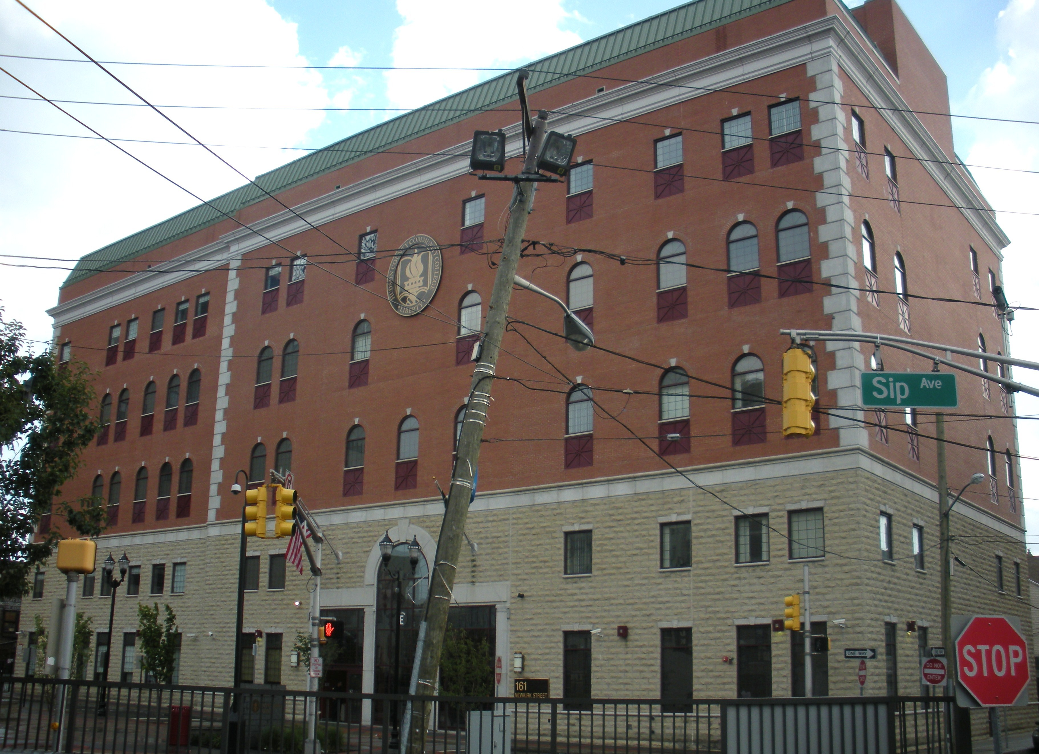 HCCC Culinary school in Jersey City.